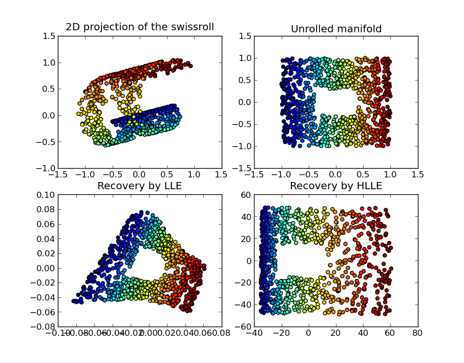 Swissroll manifold recovery by the LLE and Hessian LLE algorithms